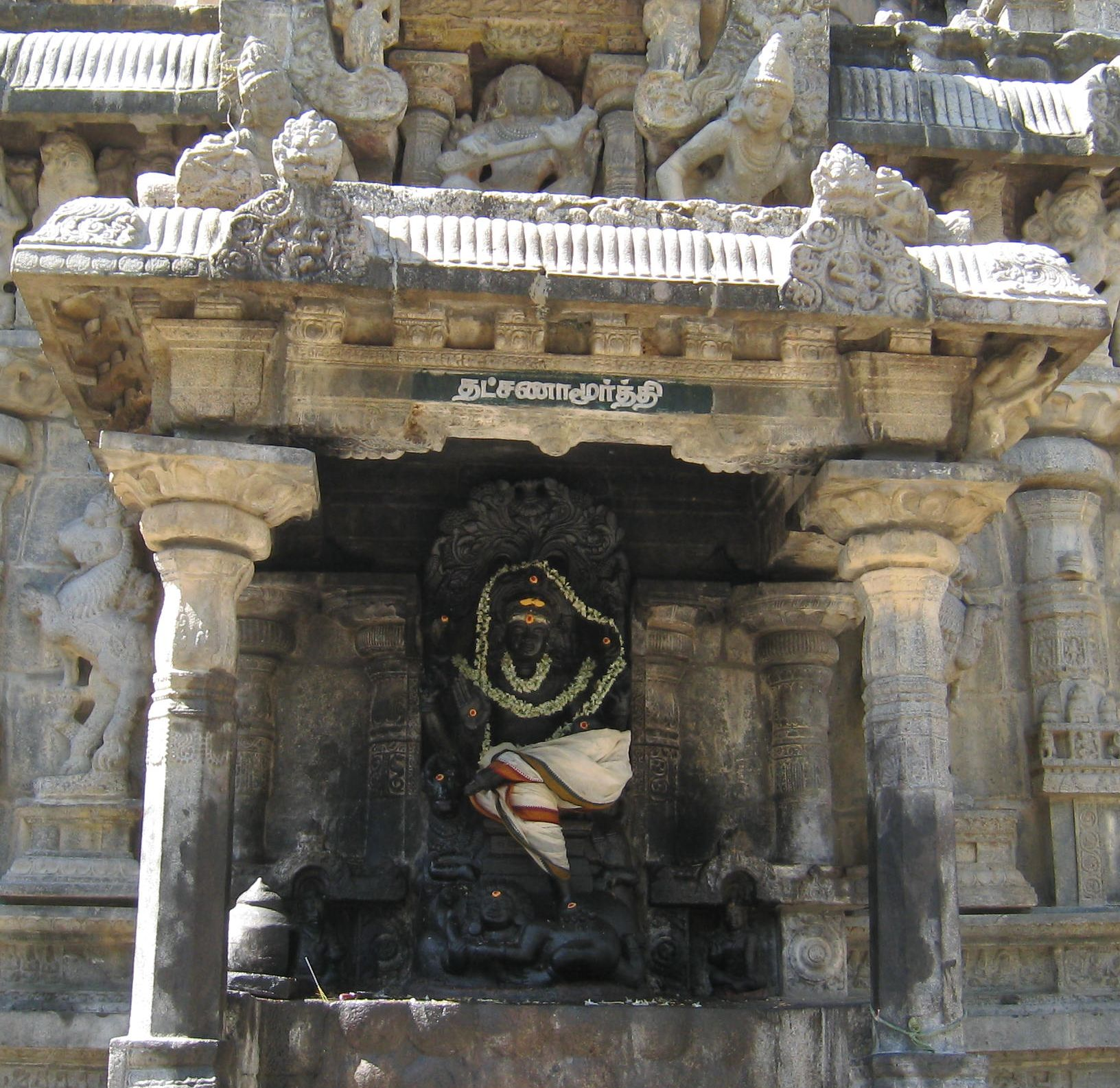 Dakshinamoorthy